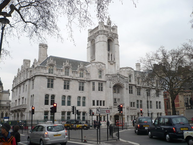 Middlesex Guildhall, Parliament Square Situated on the south west corner of the square close to Victoria Street. Architect J.Gibson 1906 - 13.